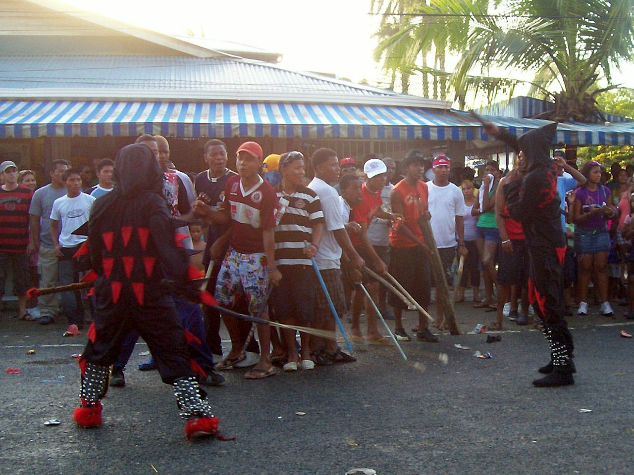 Bocas del Toro (Panama) Carnival 2009: the devils try to hit the boys' legs with their whips